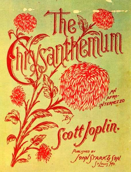 Scott Joplin, The Chrysanthemum, 1904